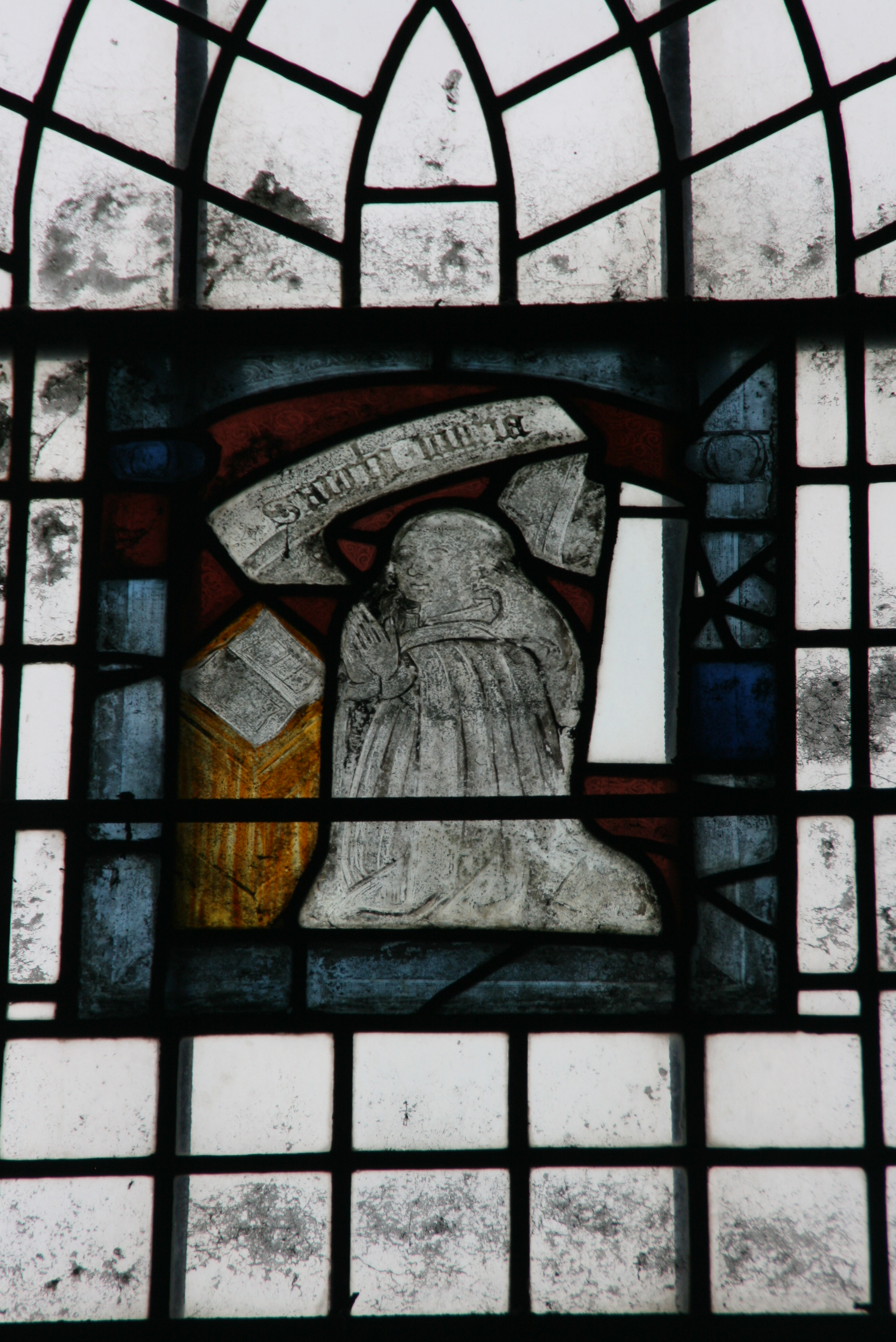 15th-century stained glass panel in a window of St Mary's abbey church, Blanchland, Northumberland. It represents a Premonstratensian white canon kneeling in prayer.